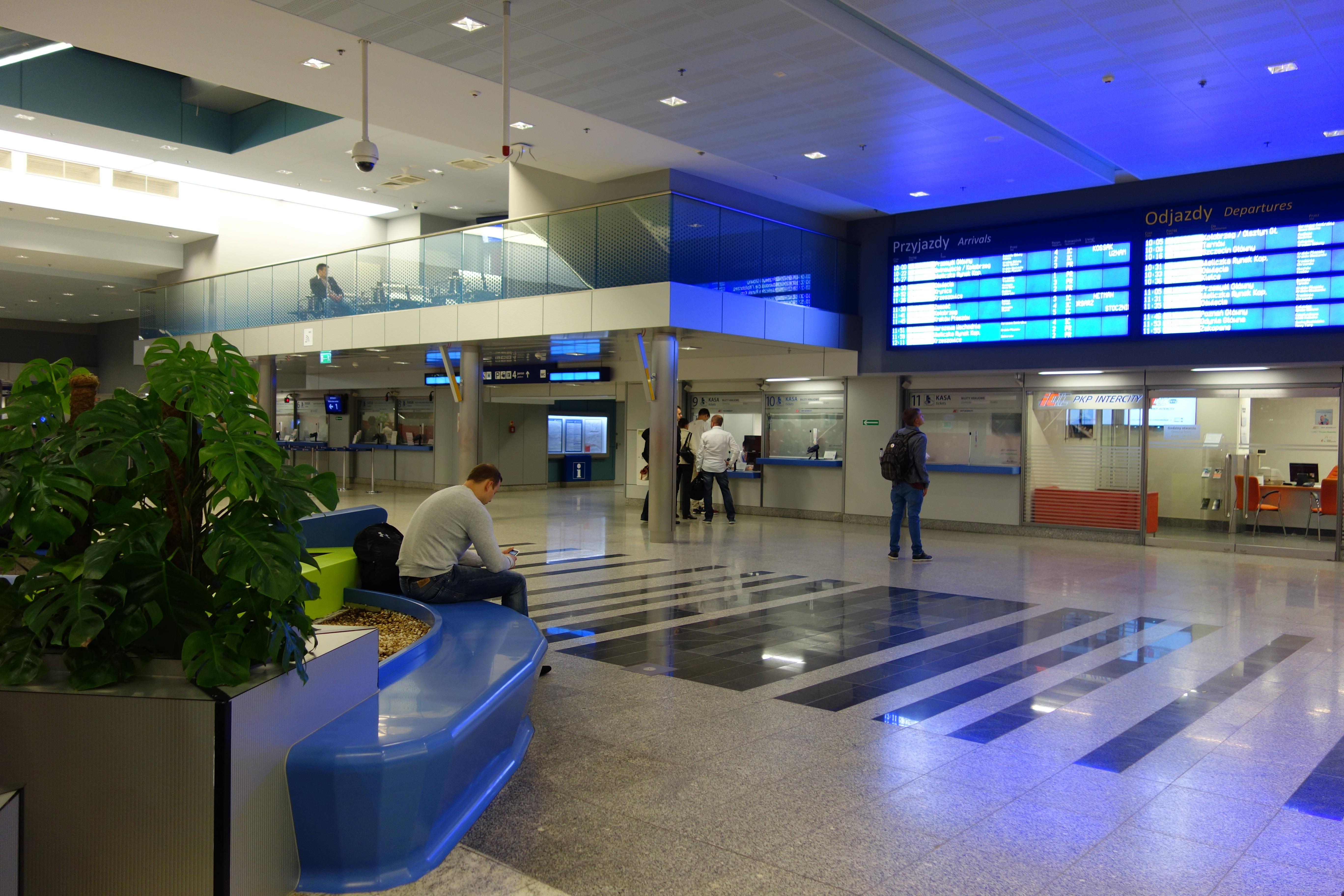 Kraków Główny This photo was taken during Railway Wikiexpedition 2014 set up by Wikimedia Polska Association in cooperation with Fundacja Grupy PKP.You can see all photographs in category Wikiekspedycja kolejowa 2014.